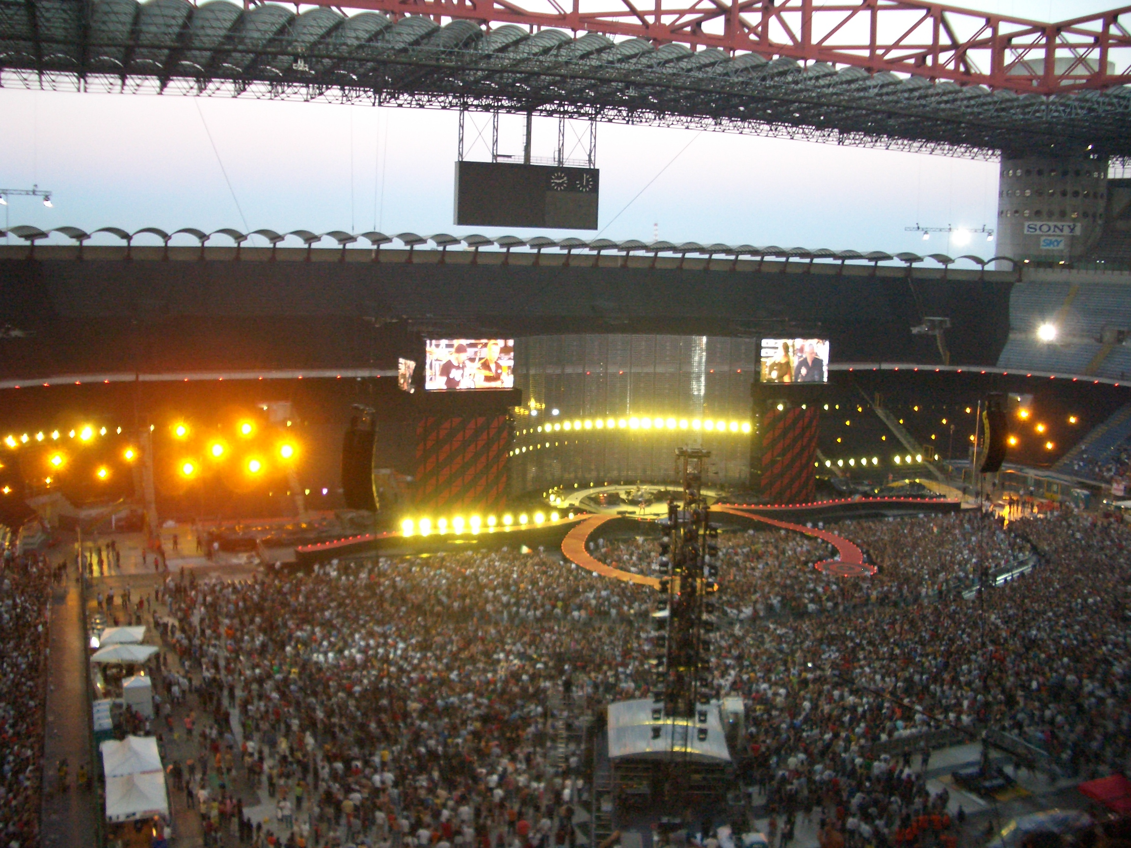 Koncert U2 na San Siro. U2 concert at San Siro stadium.